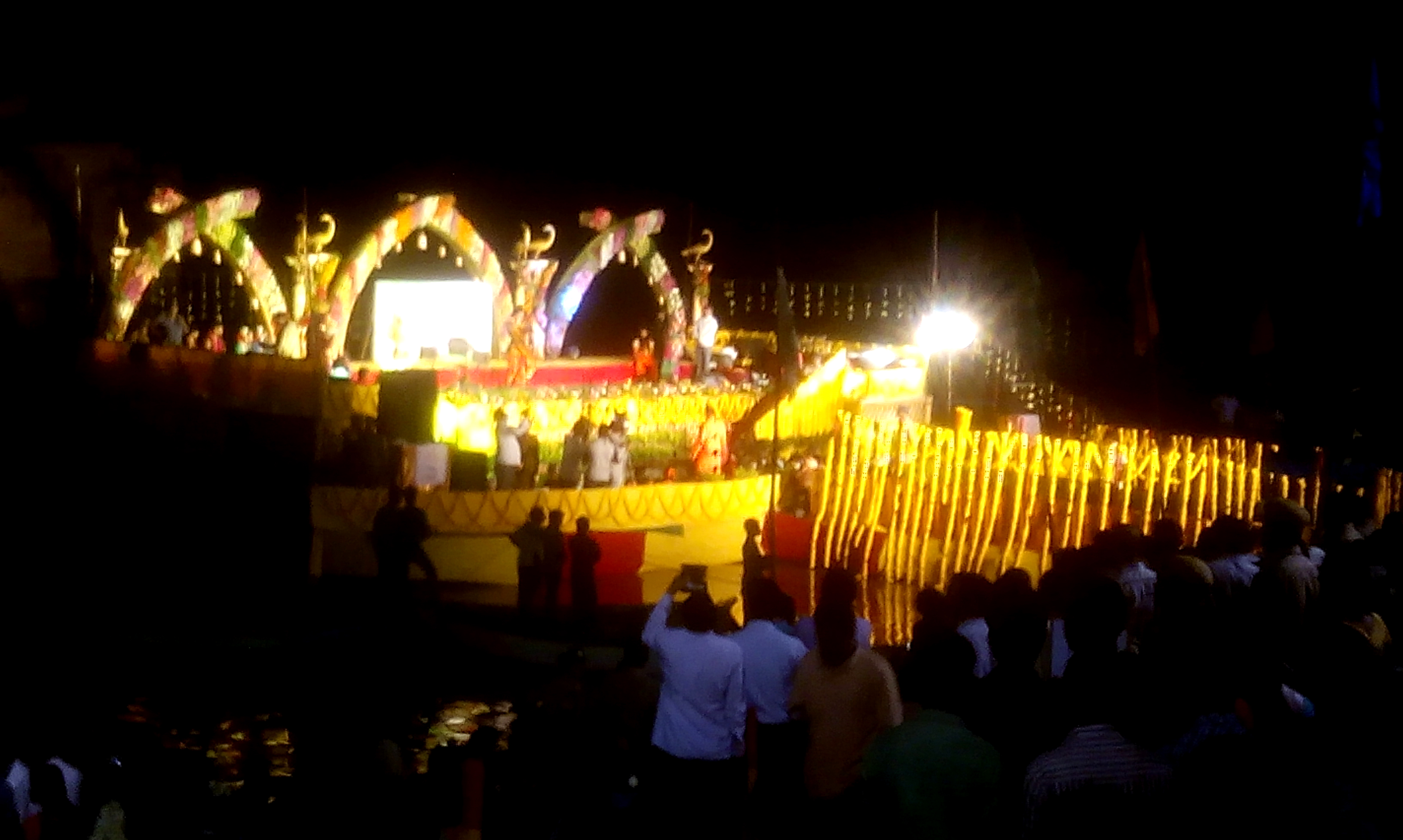 Rajamandry Godavari Pushkaralu 2015 (Godavari Kumbhamela)